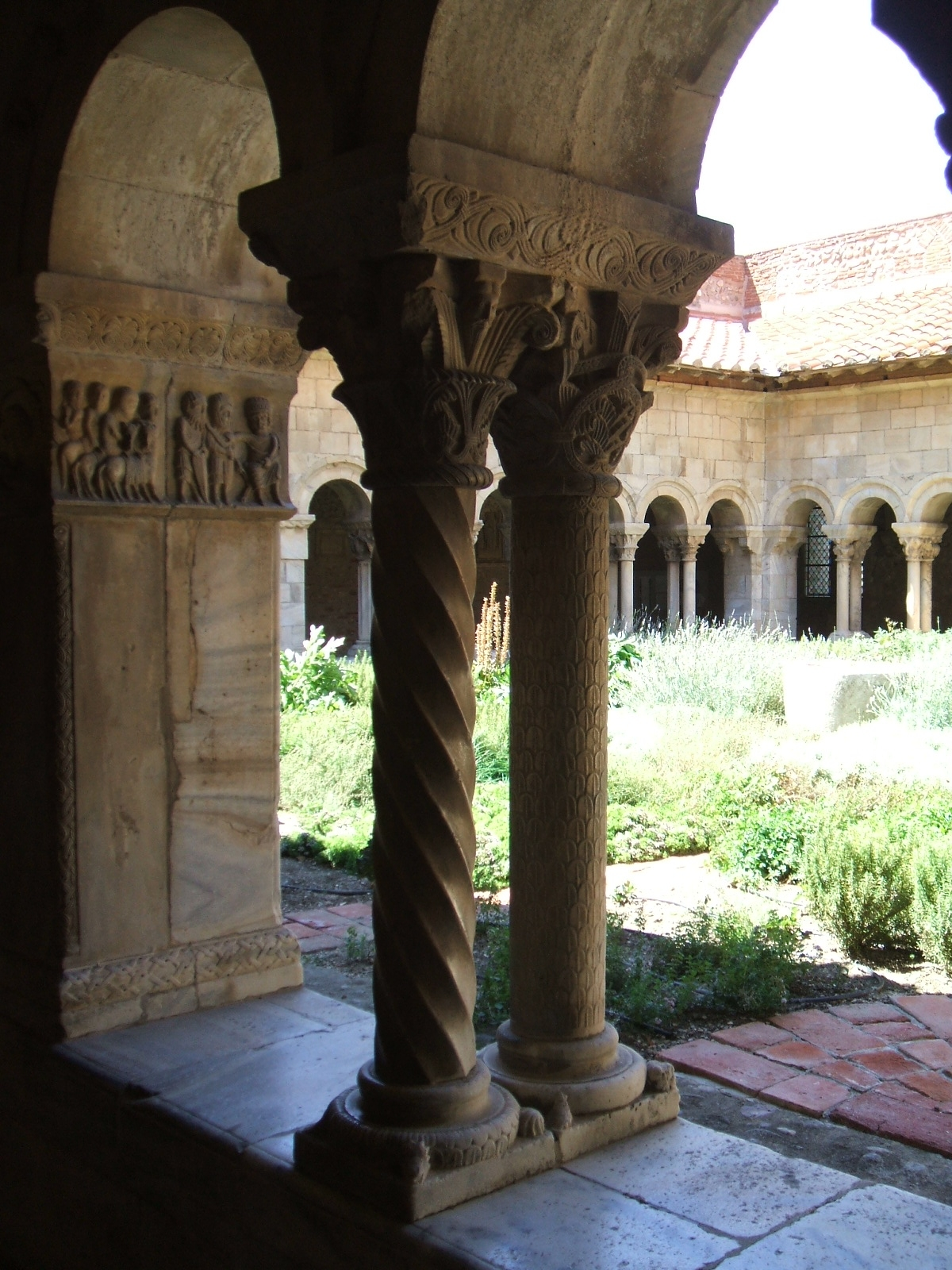 Elne cloister (XIIth to XIVth century) : Southern gallery column (XIIth century)